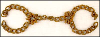 Shimon Srebnik shackles from Chlemno camp